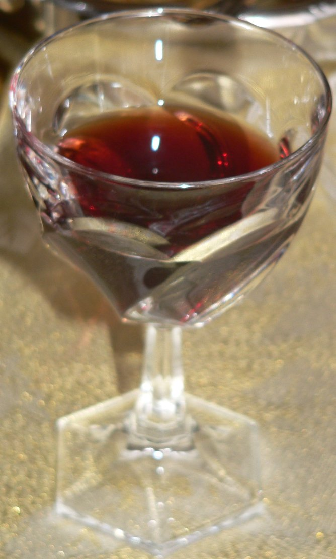 A glass of wine from Pommard (red Burgundy, pinot noir)